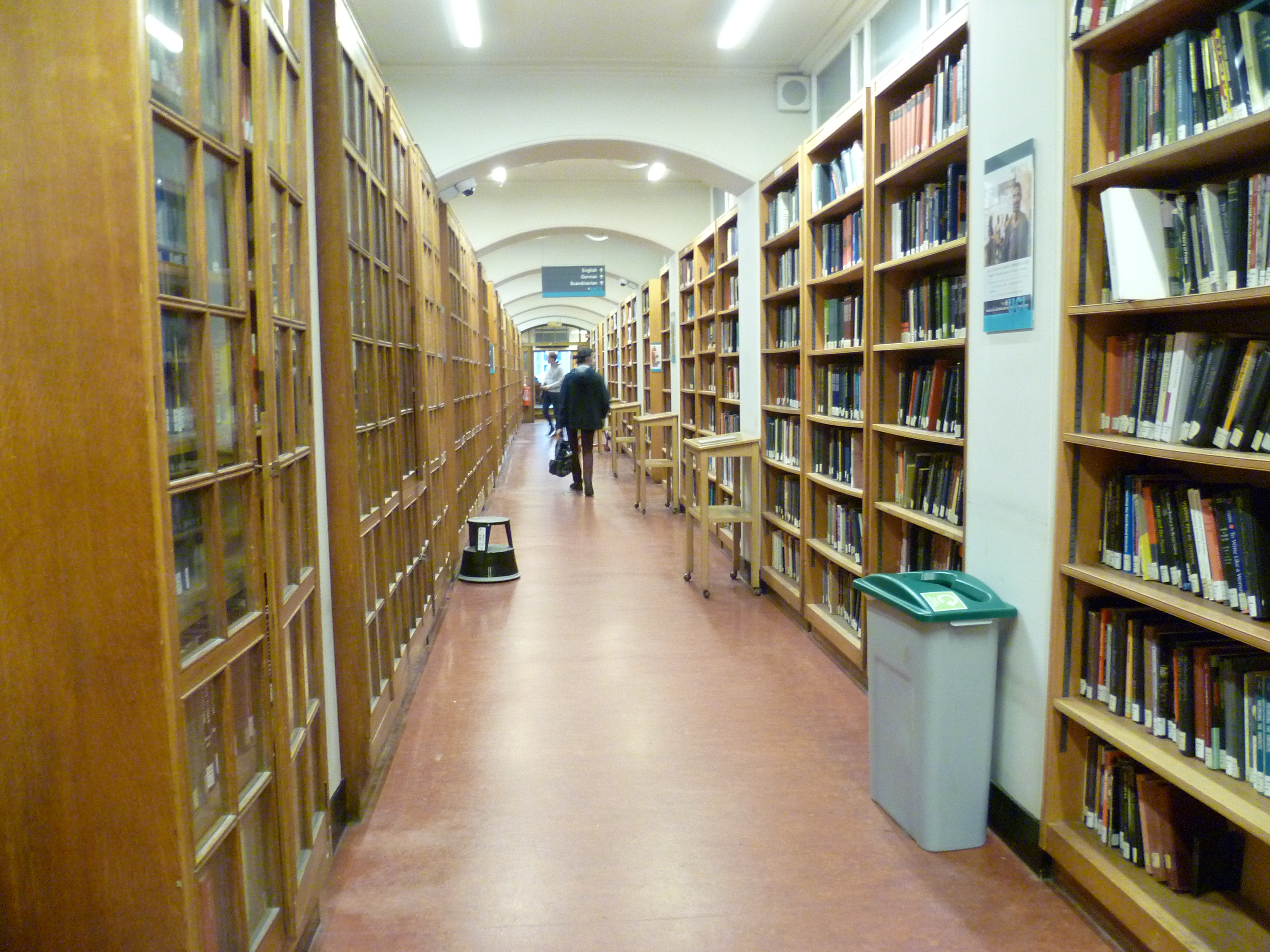 University College London main library